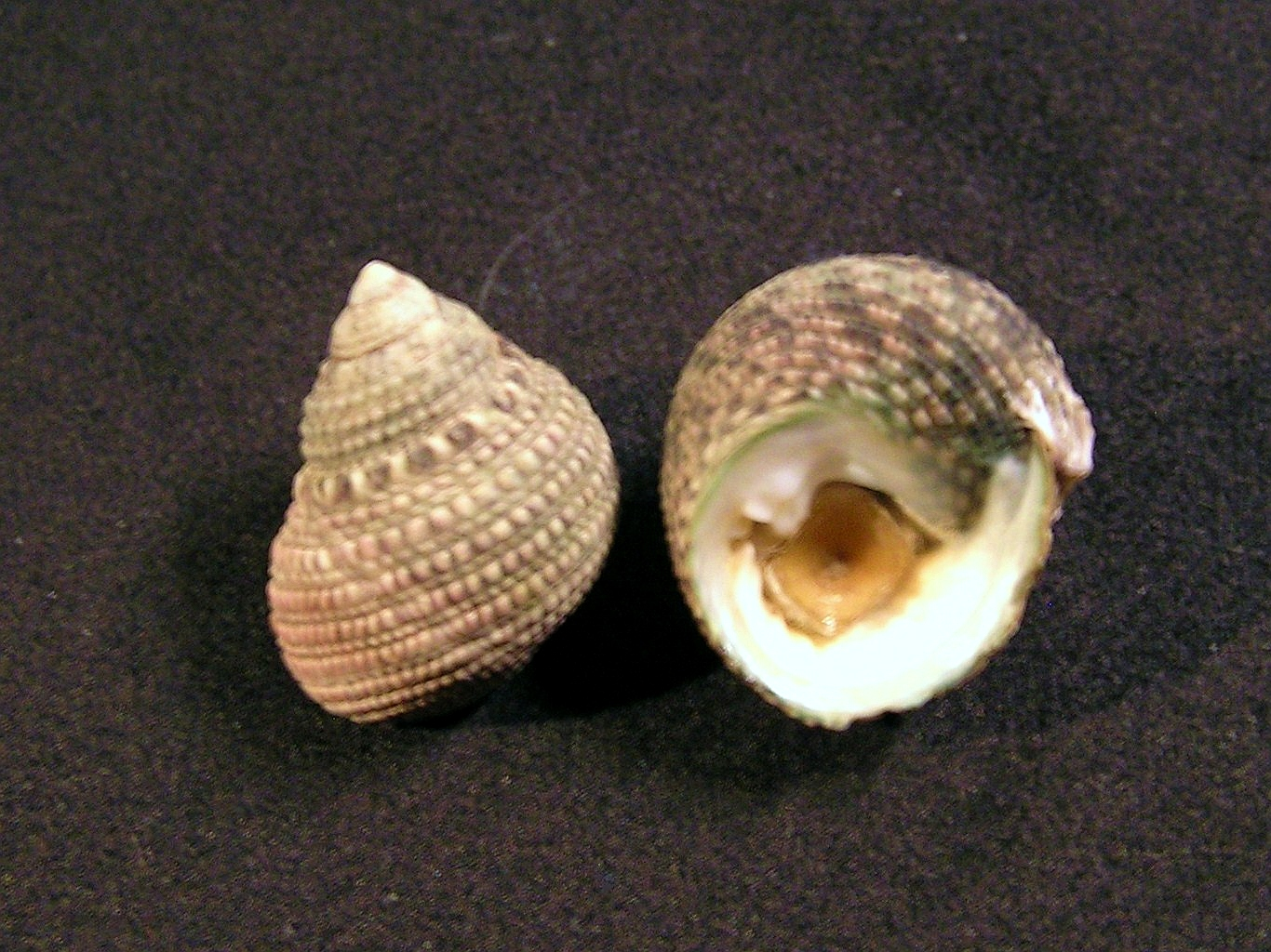 Monodonta labio (Linnaeus, 1758) , a top snail in the family Trochidae